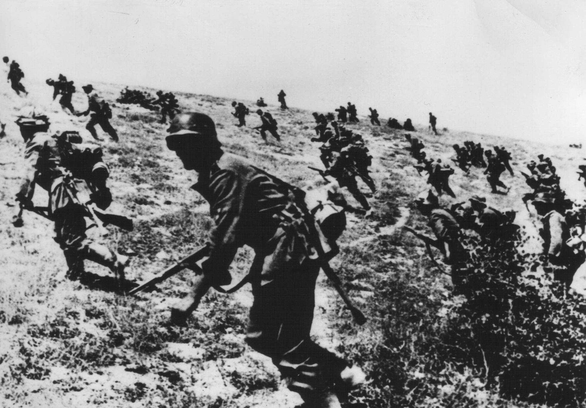 German soldiers on Fruška gora 1942.